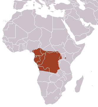 Giant Otter Shrew (Potamogale velox) range